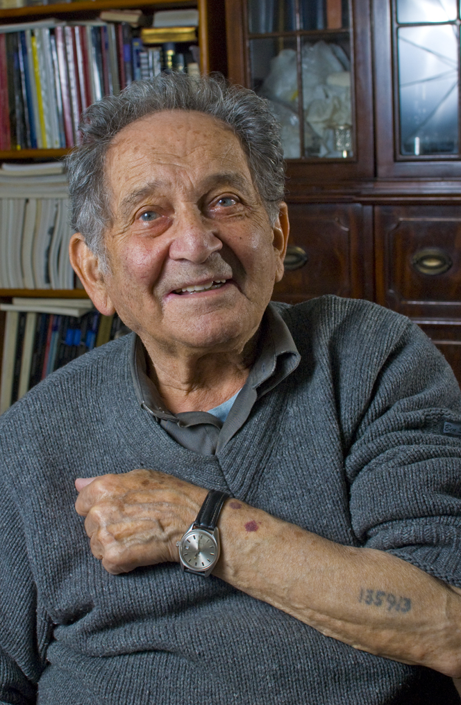 Photograph was taken by me at the home of Sam Pivnik. I am placing this photograph in the public domain.